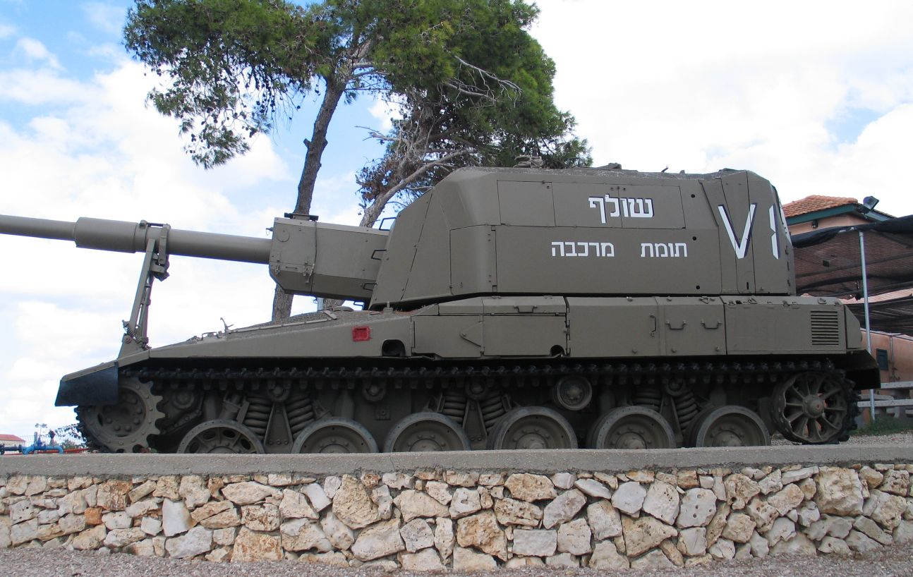 Description: Sholef (aka Slammer) Israeli 155 mm self-propelled howitzer on Merkava tank chassis in Beyt ha-Totchan, Zichron Yaakov, Israel. 2005. Source: Photo by me, User:Bukvoed.